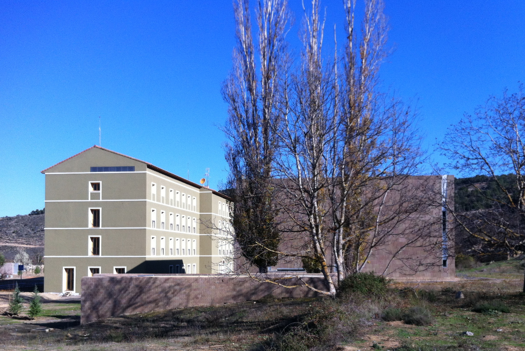 Baños de La Albotea.Cervera de rio Alhama. la Rioja